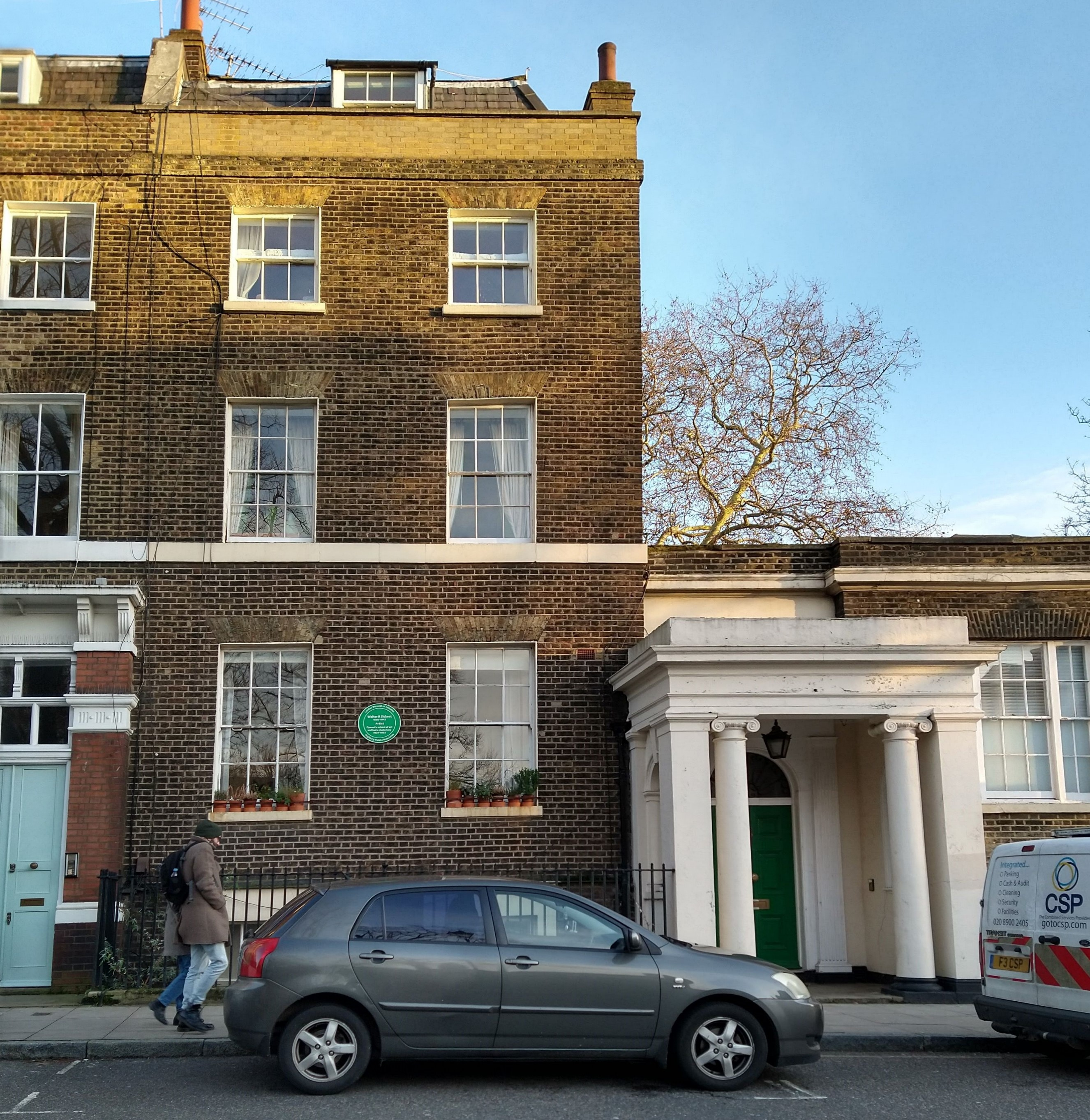 1 Highbury Place, former studio and school of Walter Sickert